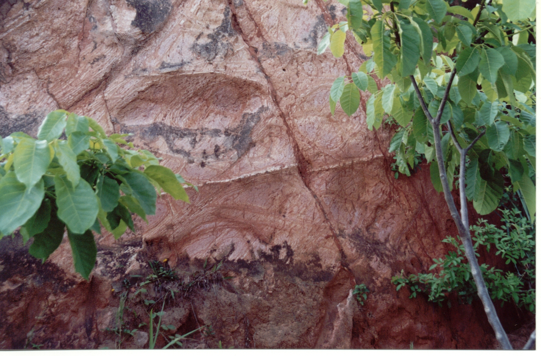 Regolithic soil from granulite rock. It is very argillaceos and preserves the original foliation and other structures of the rock massif. 8 meters high road cut soil. Granulite rock:related Date:31-03-2006 Local: Rio de Janeiro city, Leblon Park, Brazil Author:Eurico Zimbres Free for all use